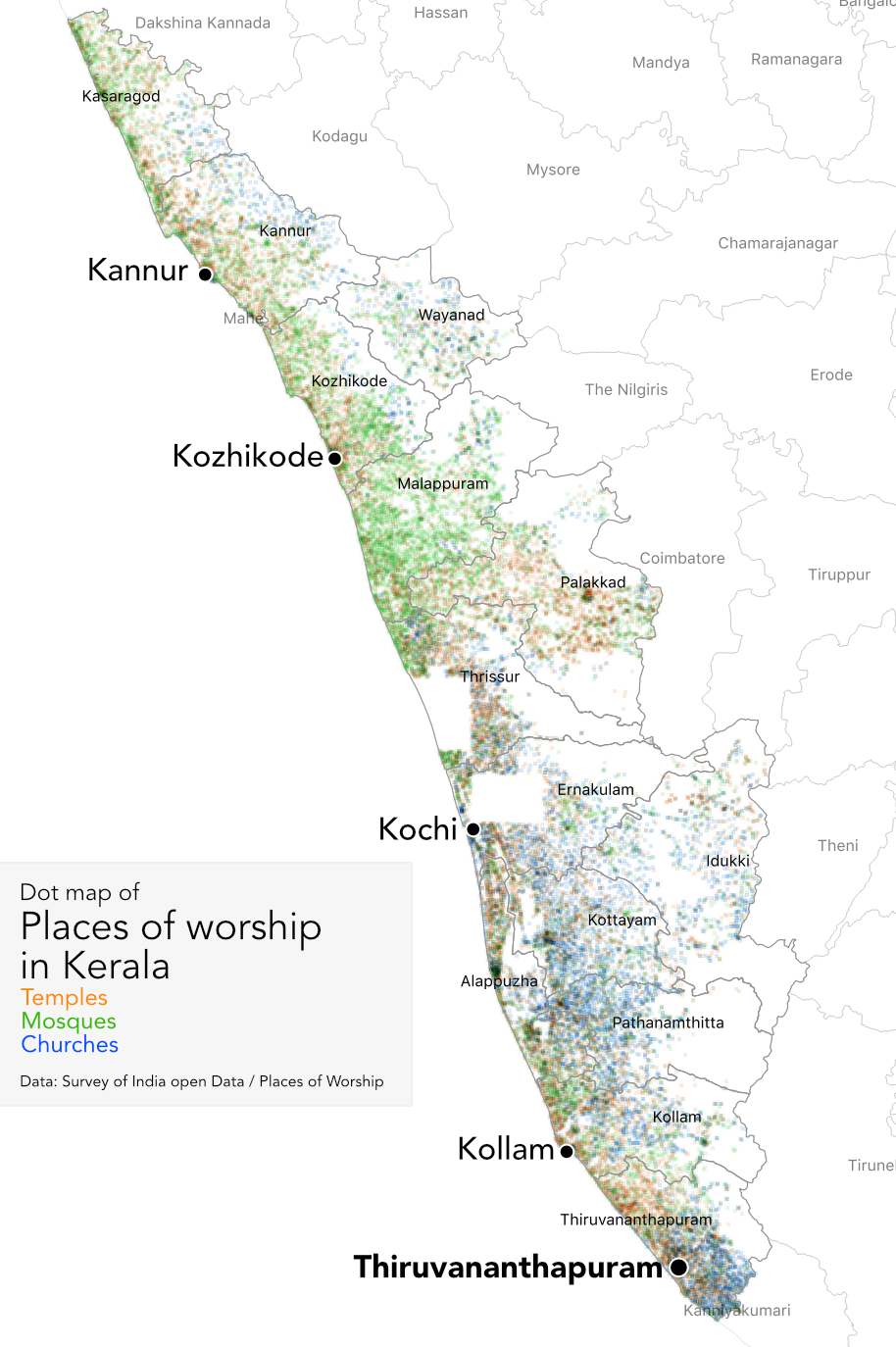 A dot distribution map showing places of worship in the southern state of Kerala, India. Kerala is known as the most religiously diverse state in India and has historically been the entry point of Judaism, Christianity and Islam in India. See Religion in Kerala Data source: Survey of India Open Data